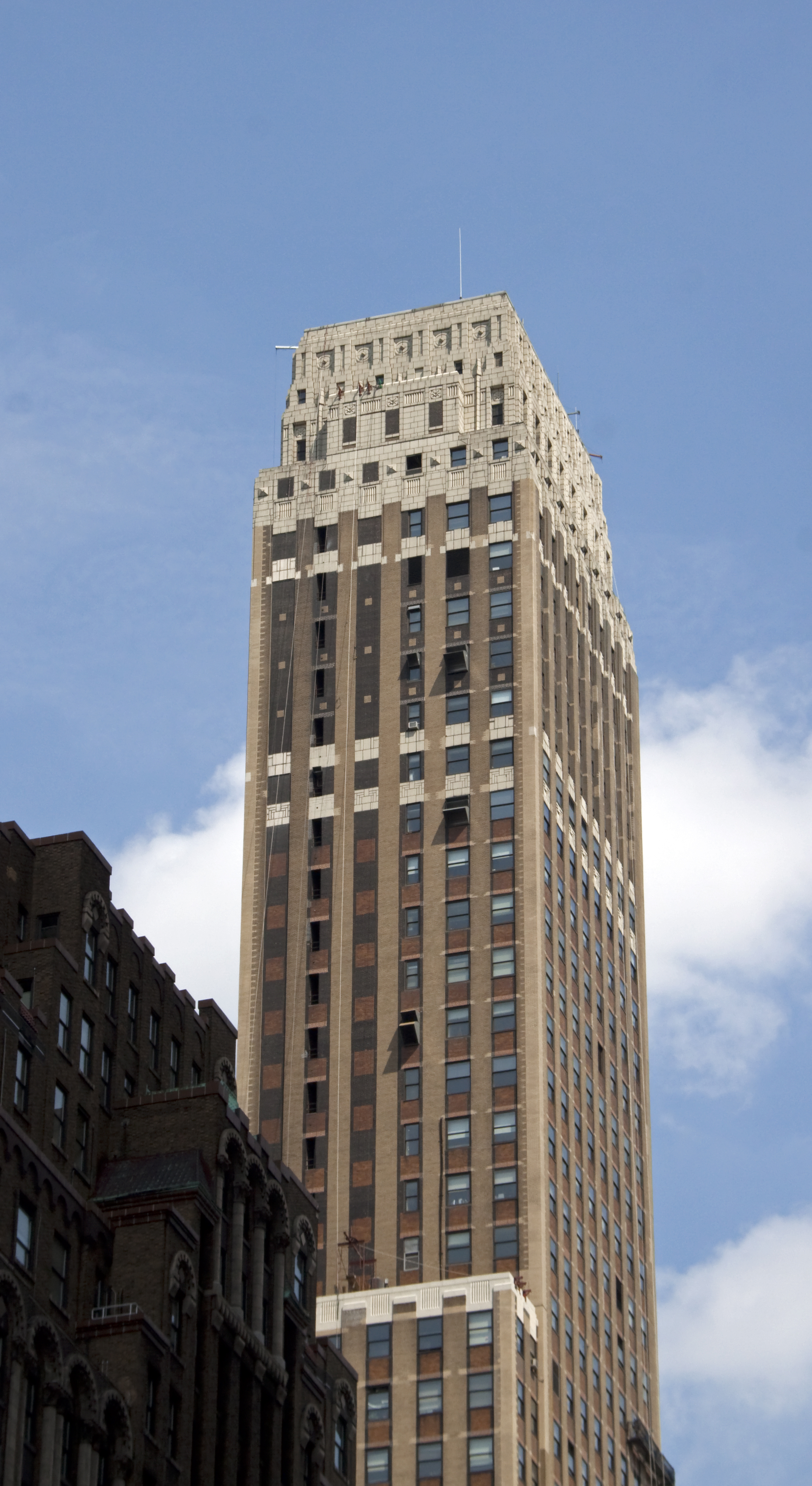 The Nelson Tower, NYC